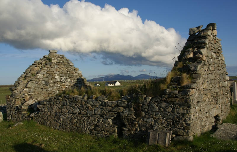 Nunton Church, Benbecula, Outer Hebrides, Scotland - from the northwest